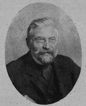 Portrait of Béla Vikár